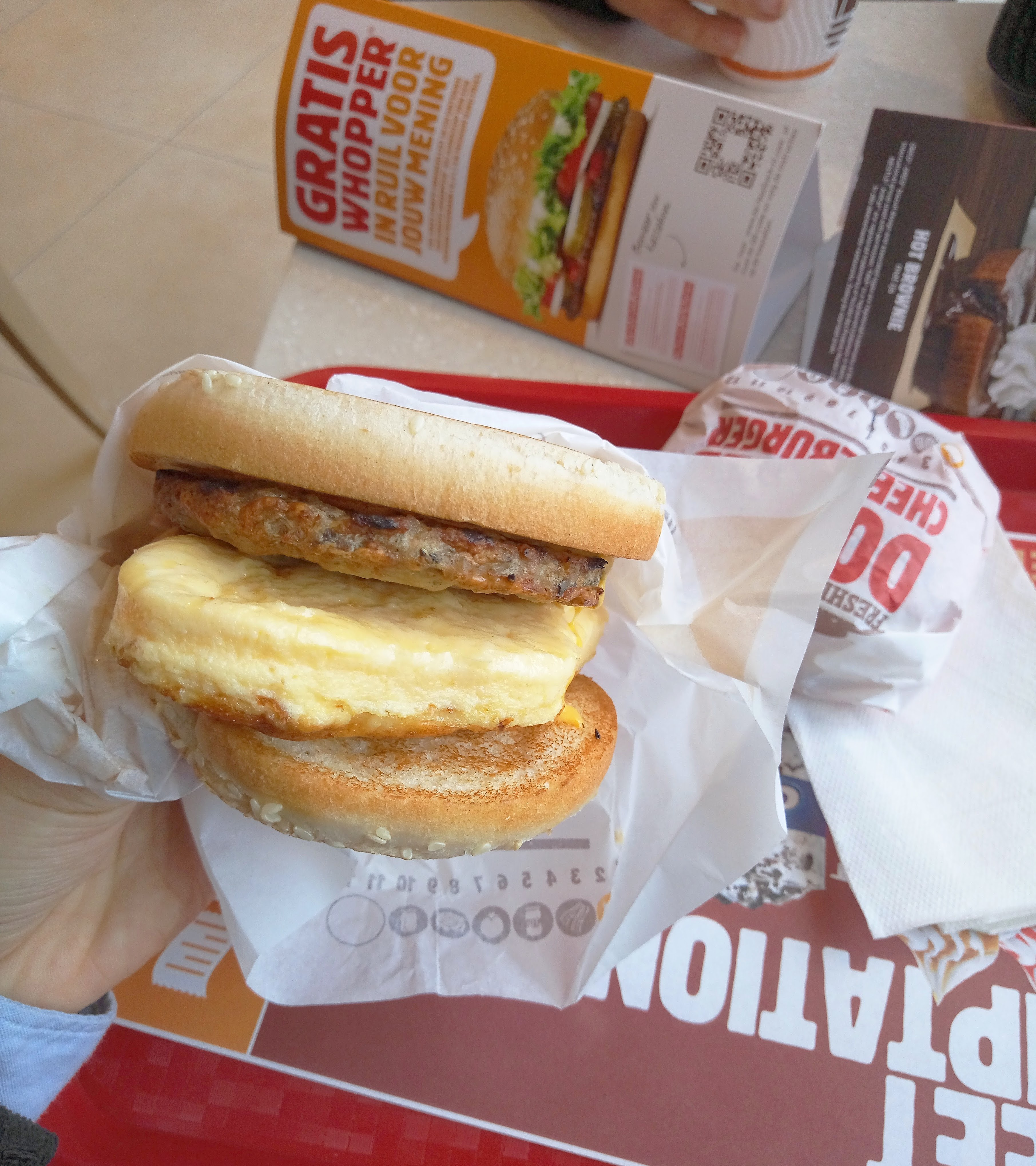 BurgerKing breakfast sandwich